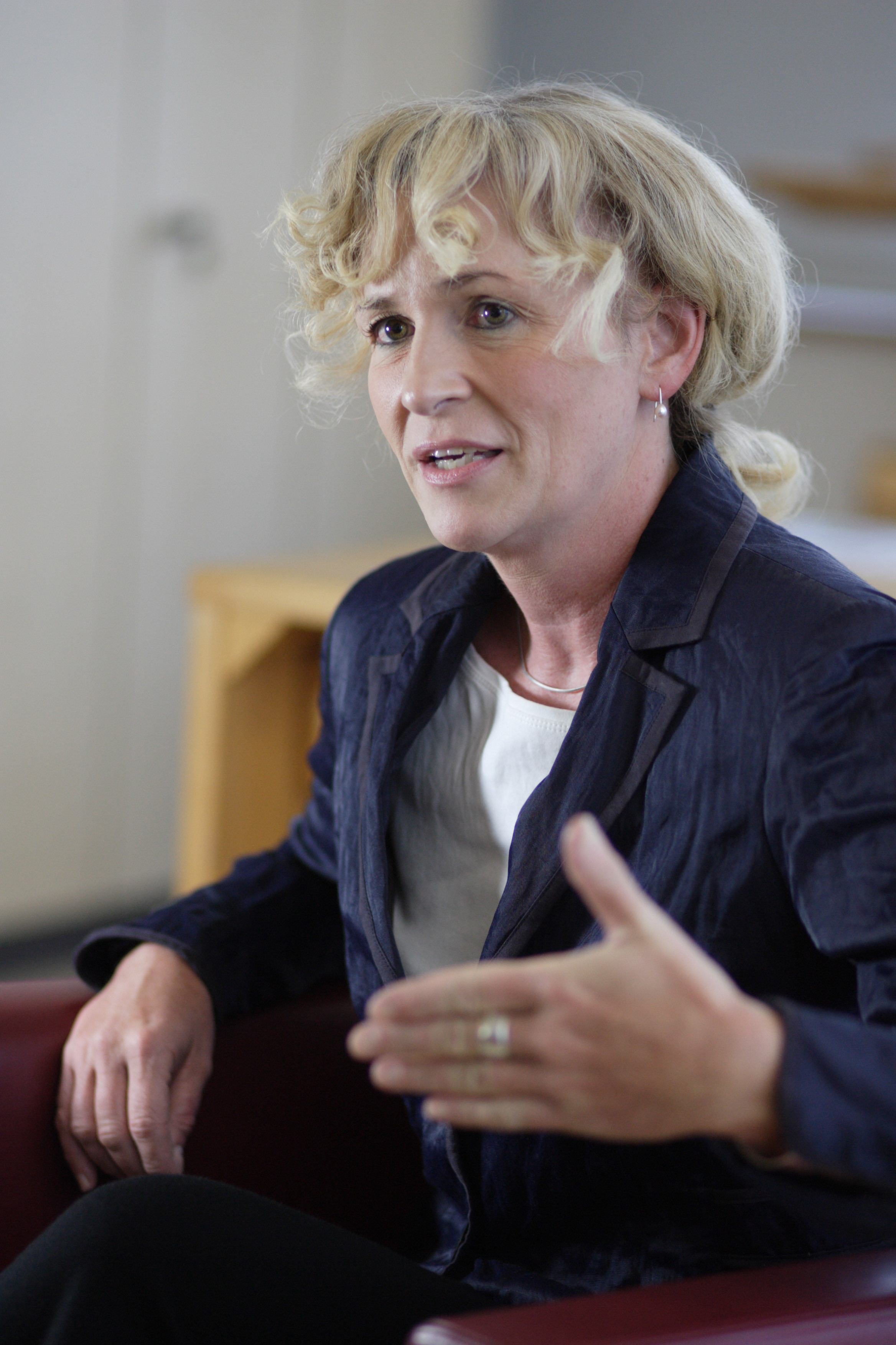 Beate Jessel, head of Federal Agency for Nature Conservation of Germany